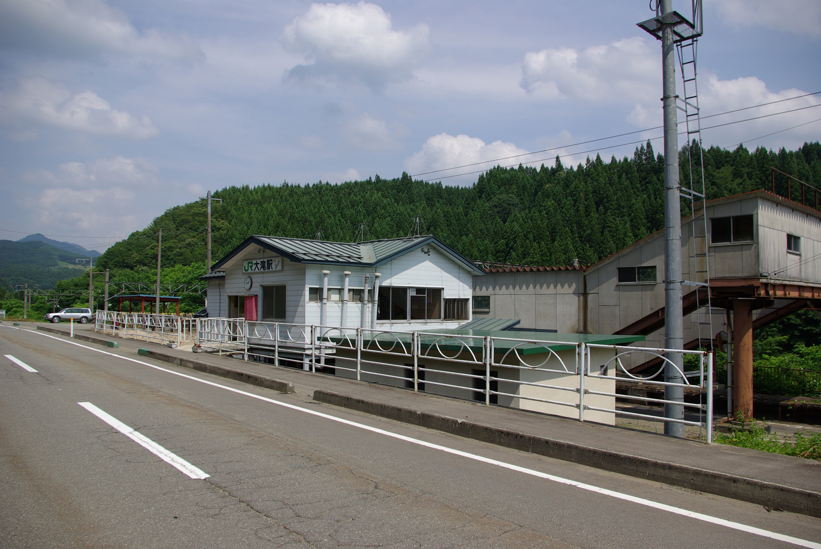 Ootaki Station on JR Ouu Main Line